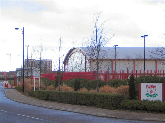 Football Academy. Liverpool Football Club's training academy on Arbour Lane, Kirkby.